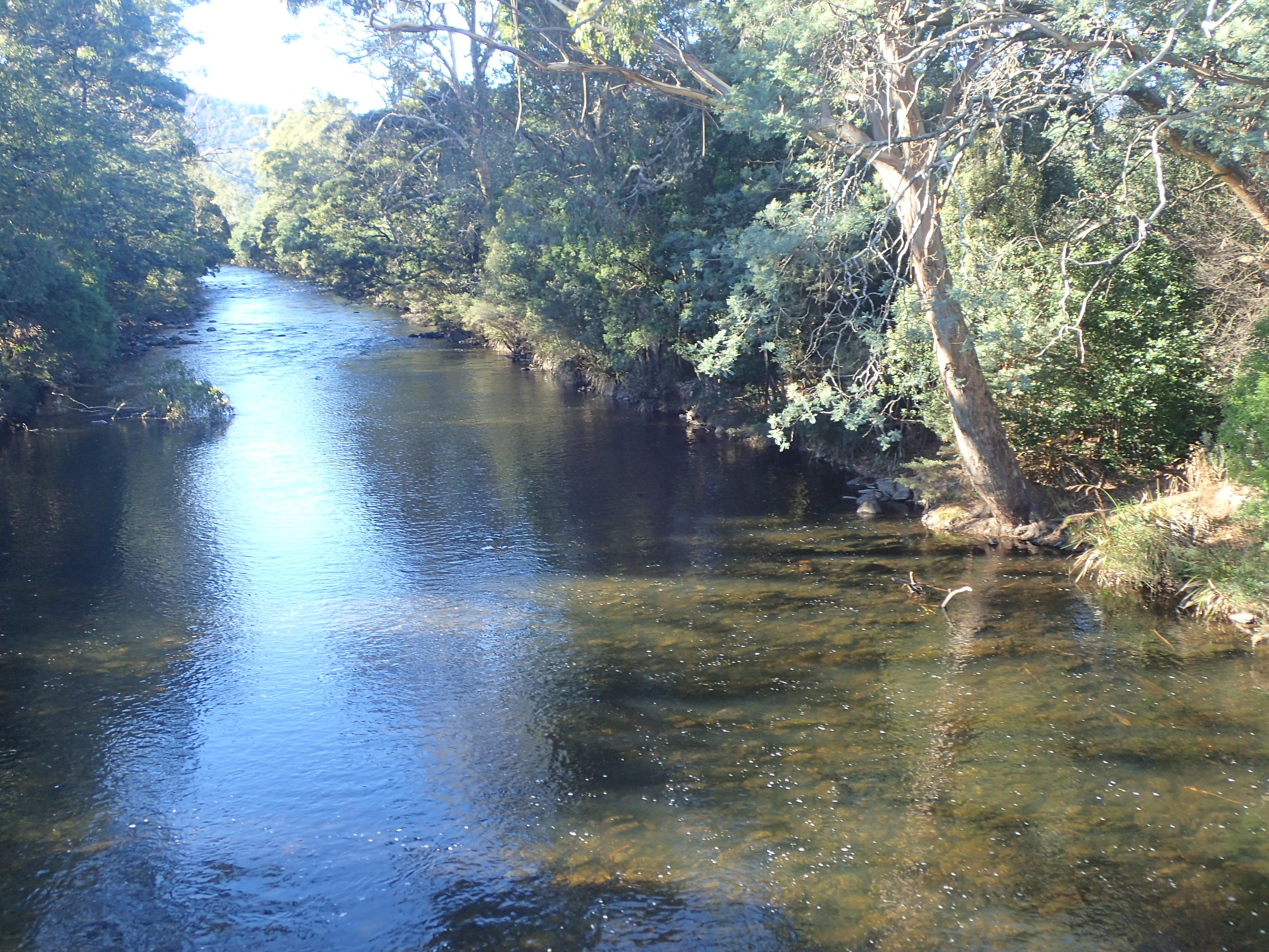 Meander River, April 2017, upriver from Meander, Tasmania